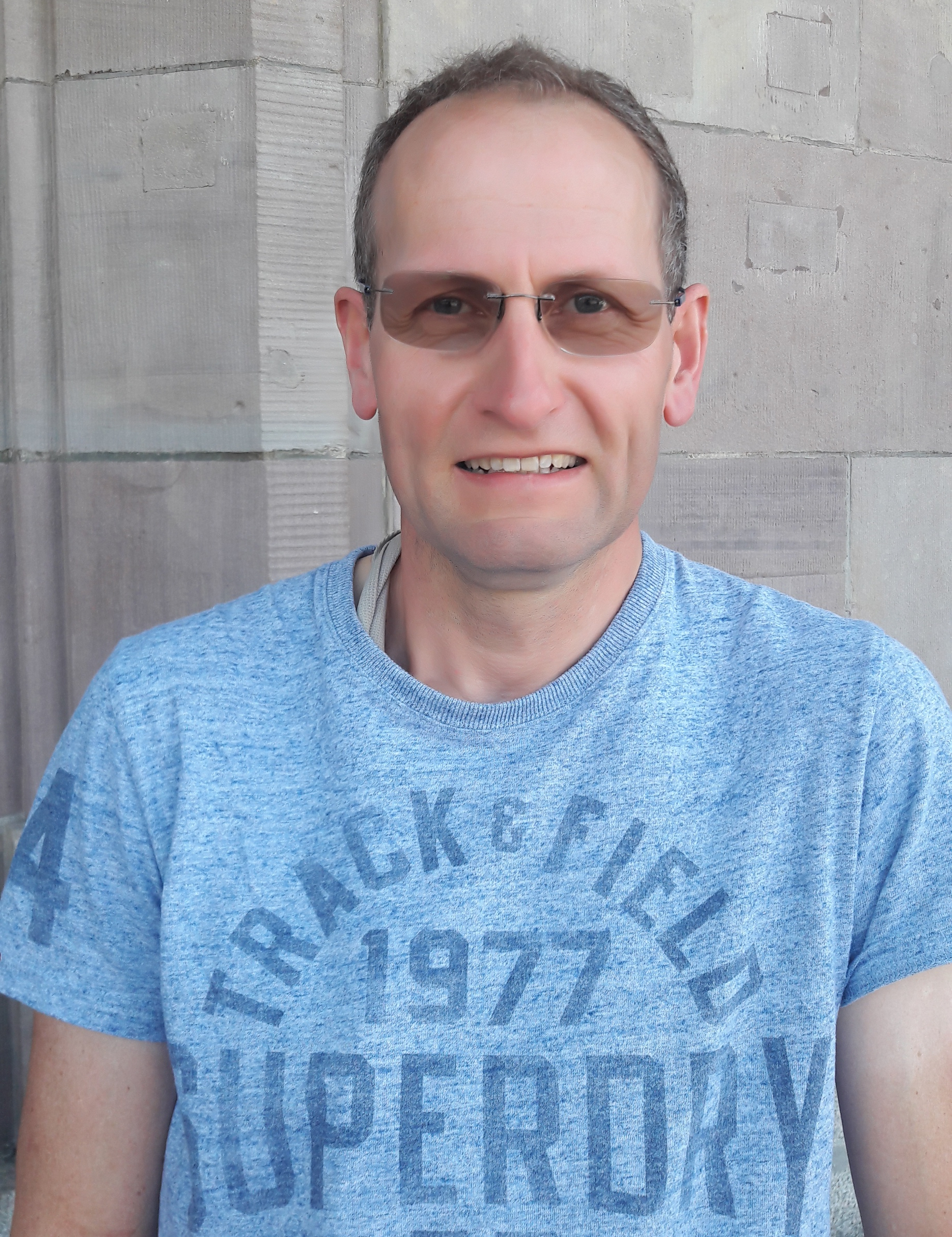 Bernard Felten, 2019